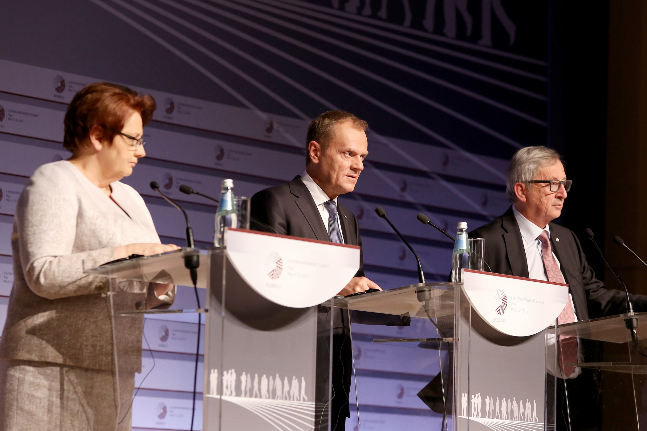 Eastern Partnership Summit in Riga 2015. Press conference. Prime Minister of the Republic of Latvia Laimdota Straujuma, President of the European Council Donald Tusk and President of European Commission Jean-Claude Juncker.